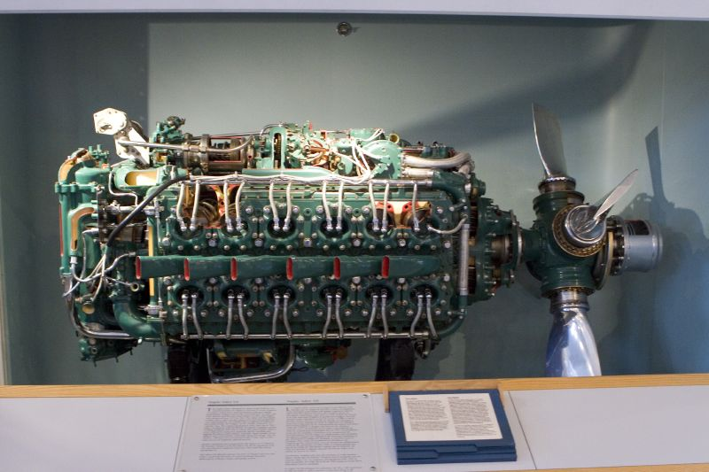 Taken directly from : The Sabre was a 24-cylinder four-stroke sleeve valve piston aircraft engine designed by Major Frank Halford and built by Napier & Son during WWII. It was one of the most powerful piston aircraft engines in the world, especially for inline designs, developing over 3,500 horsepower (2,200 kW) in its later versions and 4,000 hp in late-model prototypes. However, the rapid conversion to jet engines after the war led to the quick demise of the Sabre, as Napier also turned to jets.